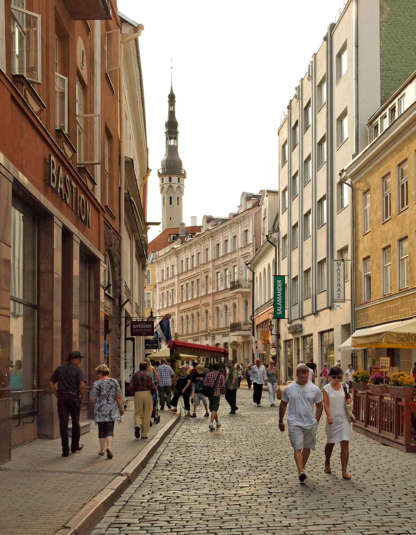 Viru street in Tallinn